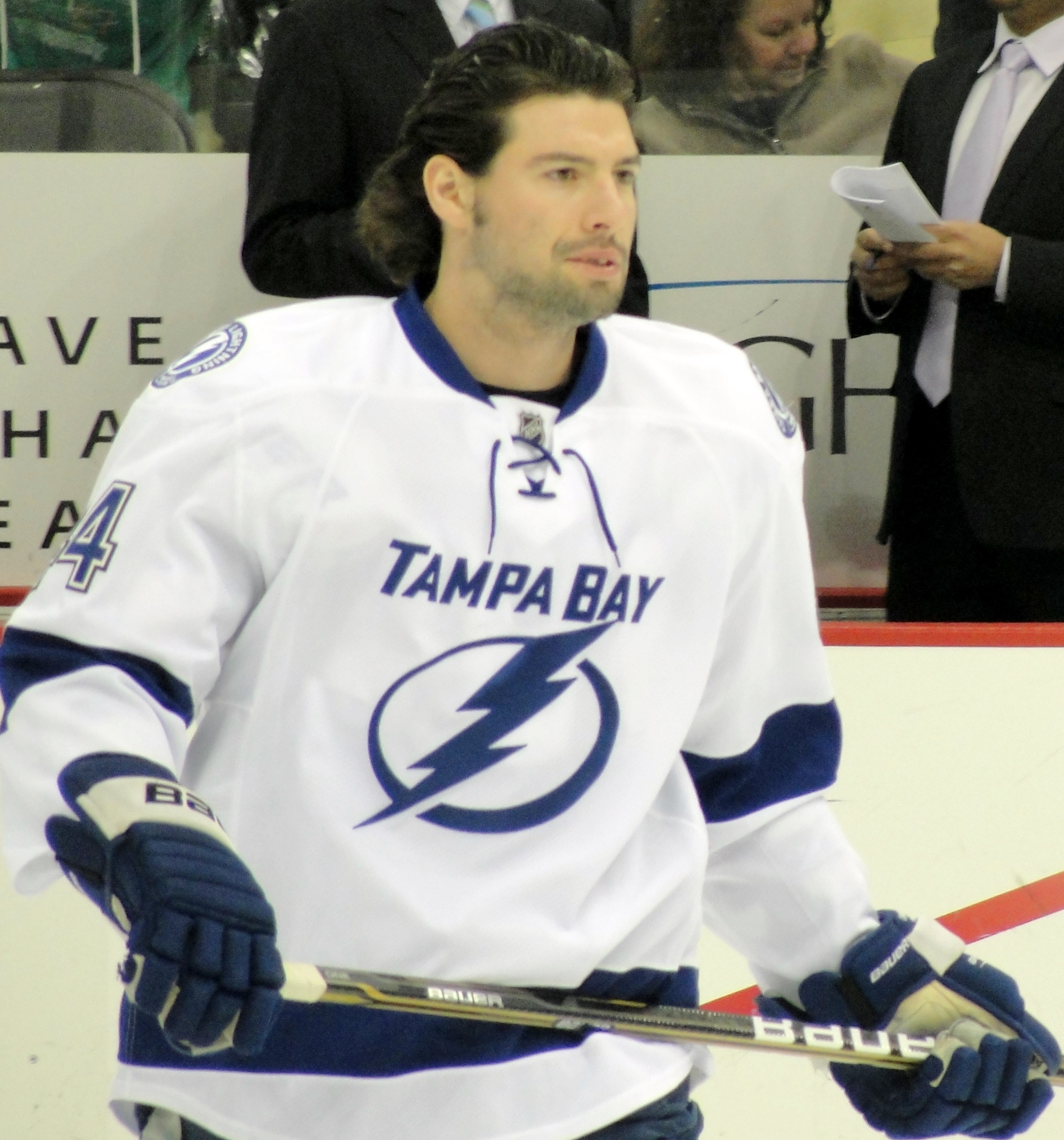 Nate Thompson of the Tampa Bay Lightning during a February 12, 2012 game against the Pittsburgh Penguins at Consol Energy Center in Pittsburgh, PA.